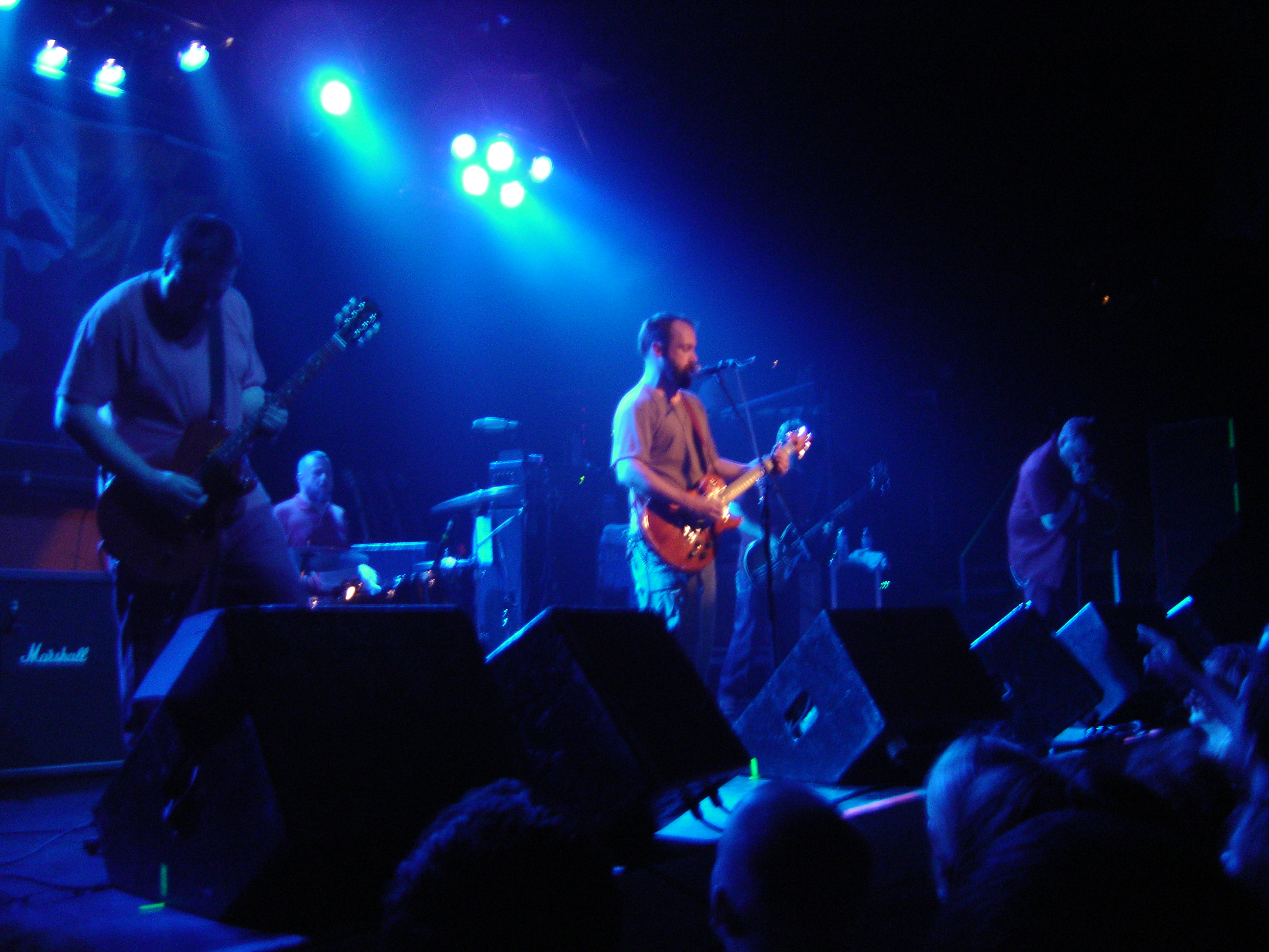 Photo of Clutch playing at First Avenue, Minneapolis, MN on May 17, 2007. Tweil 18:33, 2 July 2007 (UTC)